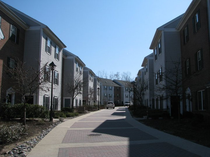 Townhouses South